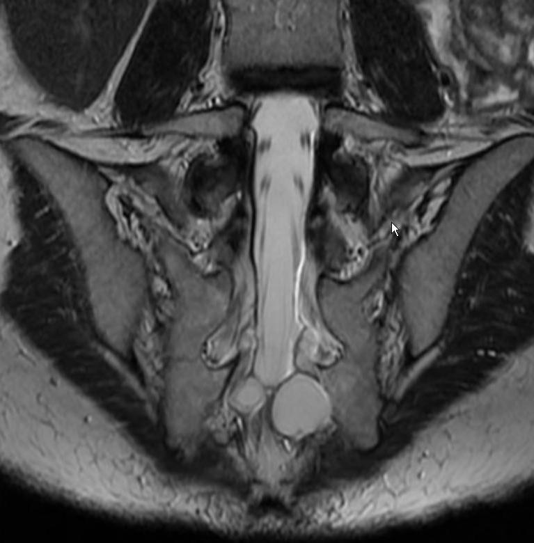 MR image of Tarlov cysts